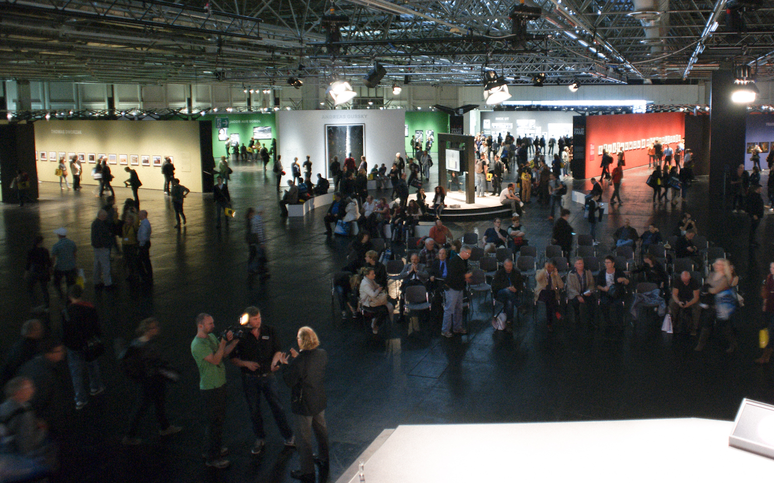 Photokina 2012, Cologne